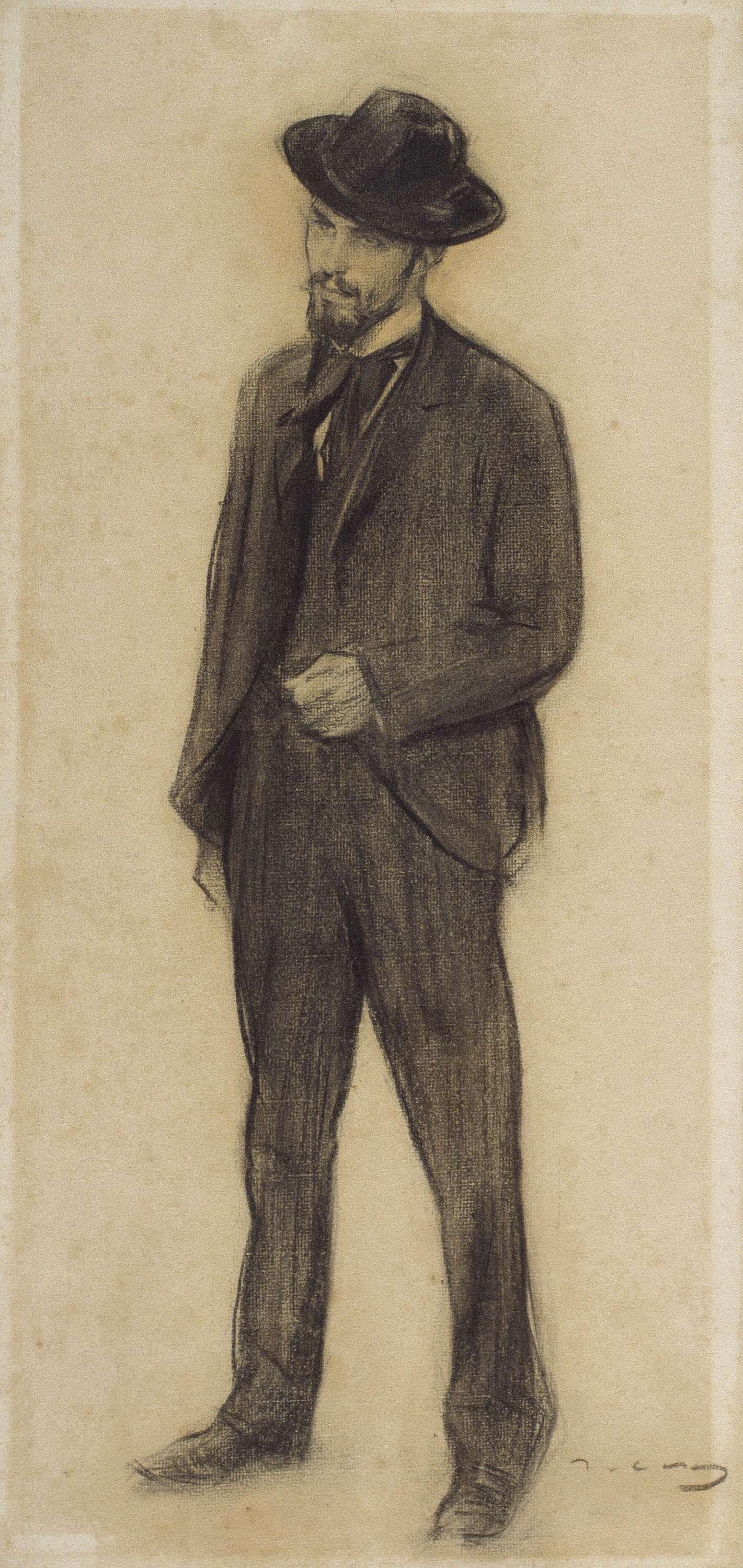 Portrait by Ramon Casas conserved at MNAC in Barcelona.